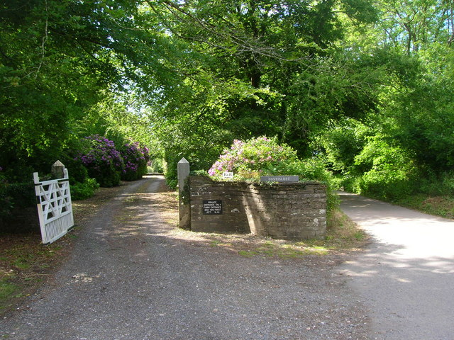 Costislost entrance The single lane top road to Sladesbridge runs alongside the drive to the right.